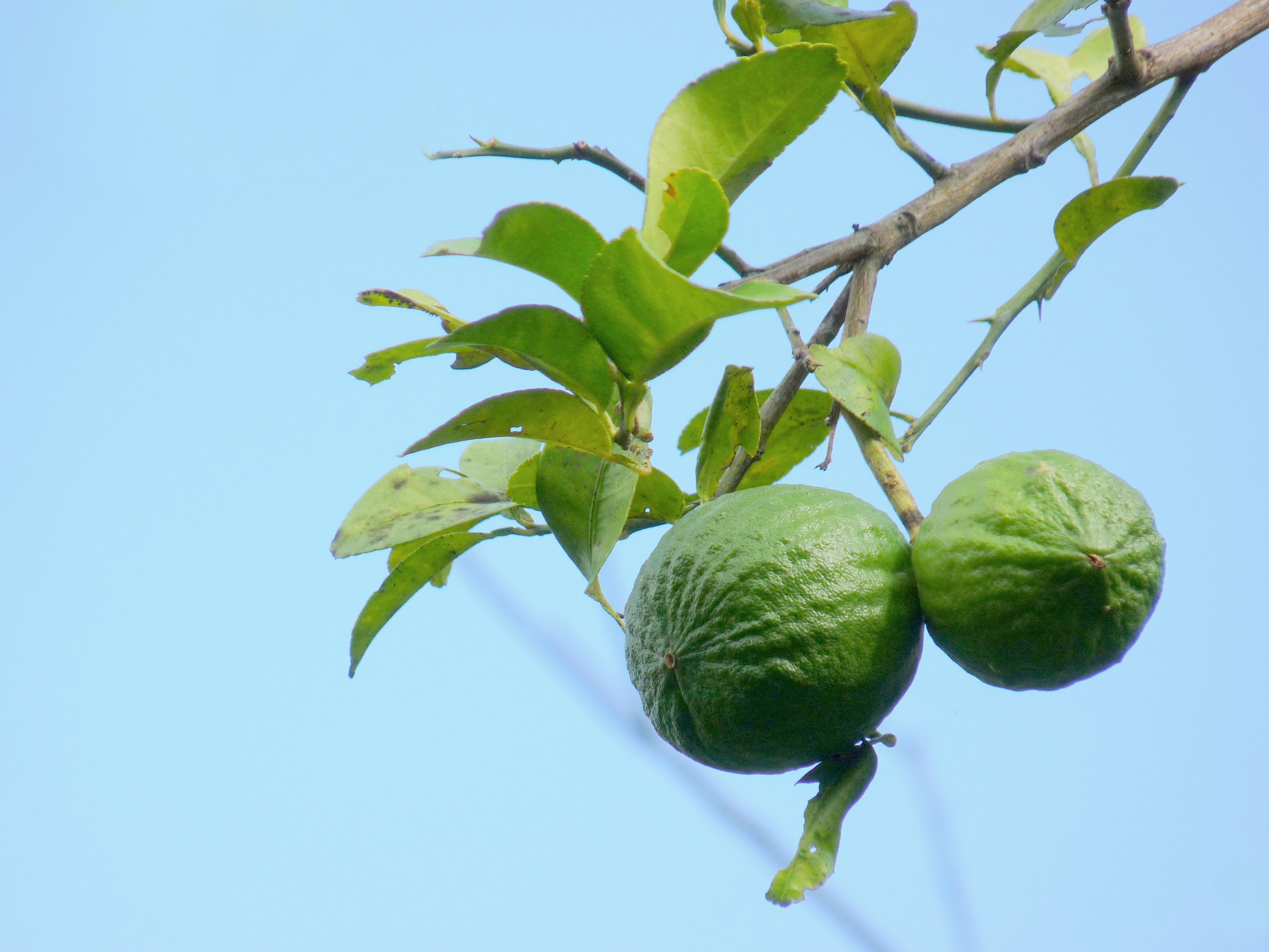 Citrus aurantifolia, Key lime, is a citrus species with a globose fruit, 2.5–5 cm in diameter (1–2 in), that is yellow when ripe but usually picked green commercially. It is smaller and seedier, with a higher acidity, a stronger aroma, and a thinner rind, than that of the Persian lime (Citrus x latifolia). It is valued for its unique flavor compared to other limes, with the Key lime usually having a more tart and bitter flavor. The name comes from its association with the Florida Keys, where it is best known as the flavoring ingredient in Key lime pie. It is also known as West Indian lime, Bartender’s lime, Omani lime, or Mexican lime, the latter classified as a distinct race with a thicker skin and darker green color. C. aurantifolia is a shrubby tree, to 5 m (16 ft), with many thorns. Dwarf varieties exist which can be grown indoors during winter months and in colder climates. Its trunk rarely grows straight, with many branches, often originating quite far down on the trunk. The leaves are ovate, 2.5–9 cm (1–3.5 in) long, resembling orange leaves (the scientific name aurantifolia refers to this resemblance to the leaves of the orange, C. aurantium). The flowers are 2.5 cm (1 in) in diameter, are yellowish white with a light purple tinge on the margins. Flowers and fruit appear throughout the year, but are most abundant from May to September in the Northern Hemisphere. C. aurantifolia is native to Southeast Asia. Its apparent path of introduction was through the Middle East to North Africa, then to Sicily and Andalucia and via Spanish explorers to the West Indies, including the Florida Keys. From the Caribbean, lime cultivation spread to tropical and subtropical North America, including Mexico, Florida, and later California.